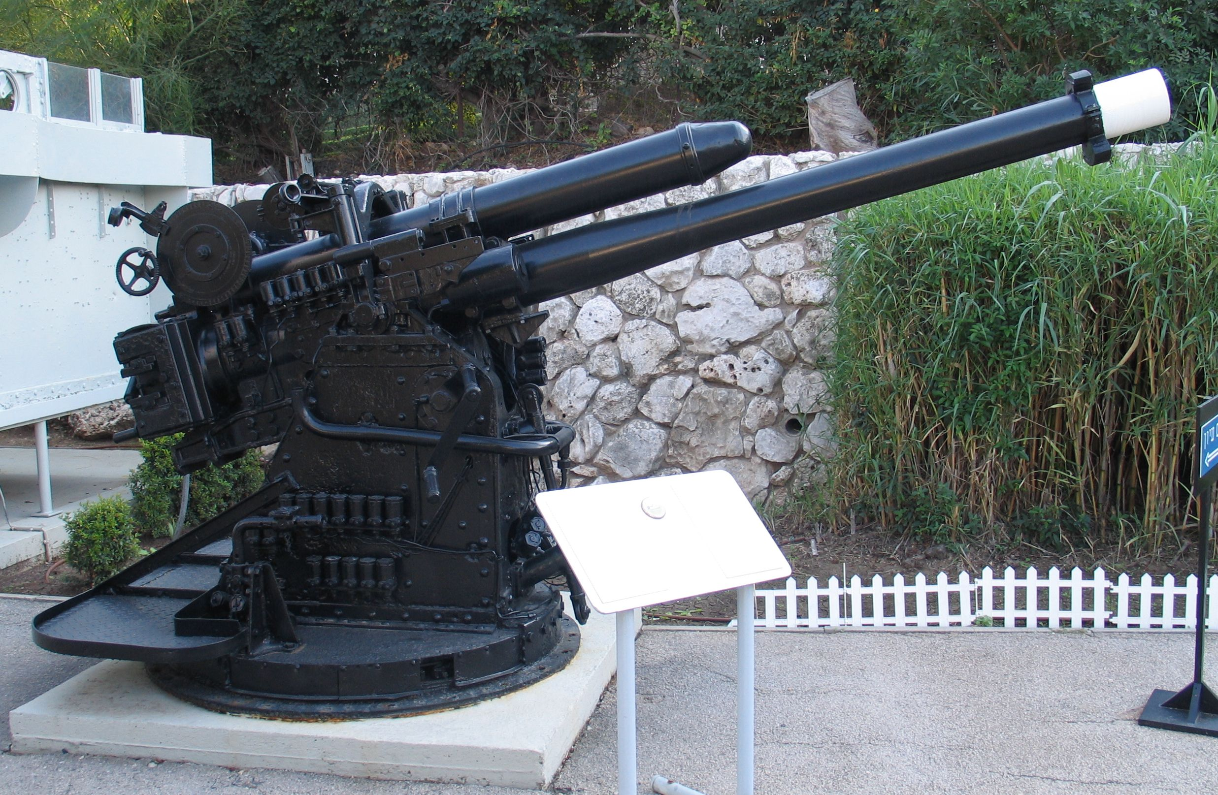 British 4-inch submarine gun in the Clandestine Immigration and Naval Museum, Haifa, Israel. Guns of this type were mounted on INS Tanin and INS Rahav (British S class). Comment : This appears to be the post-WWII Mk XXIII variant with short 33-cal barrel.